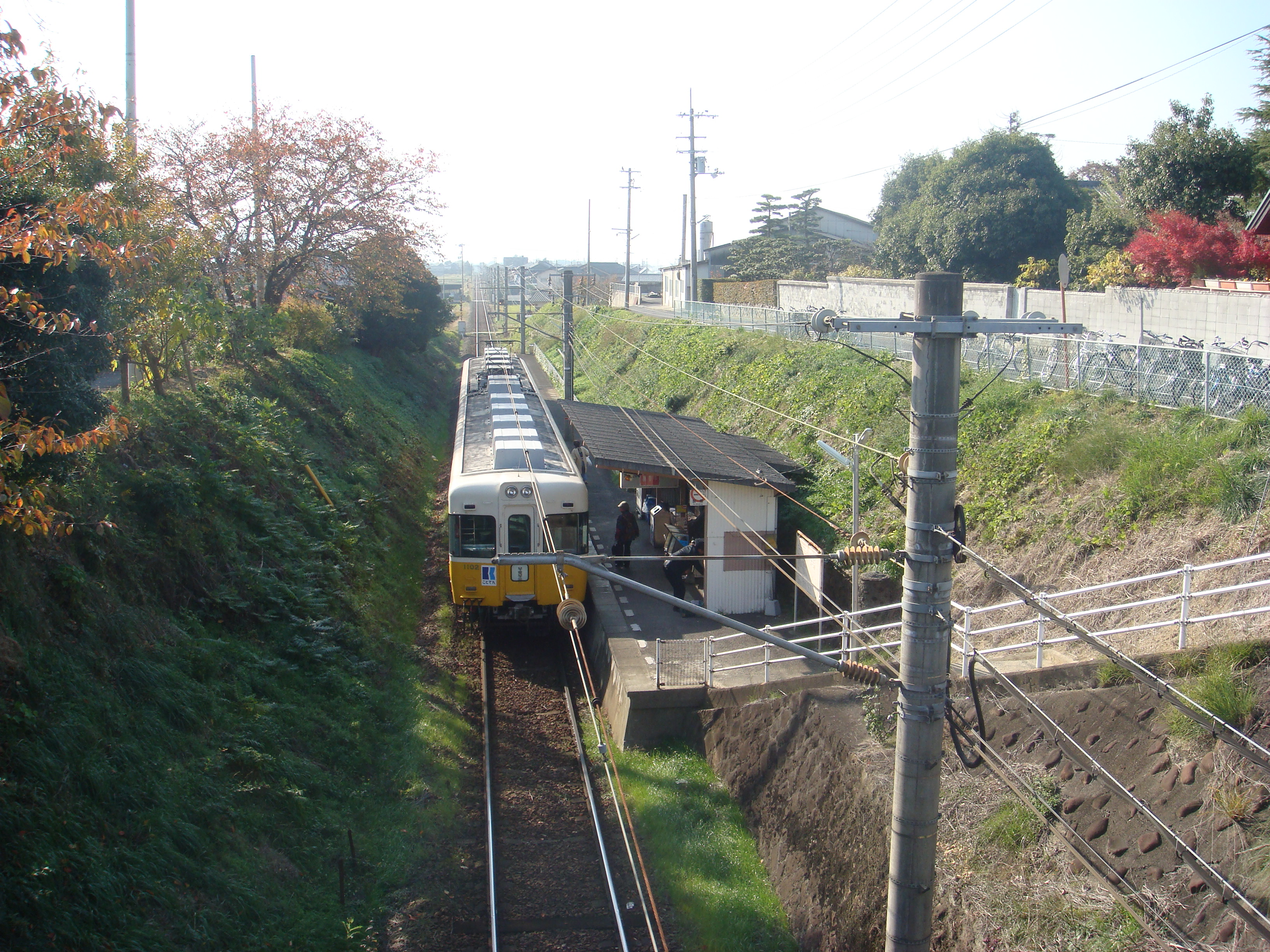 kotoden kazashigaoka station